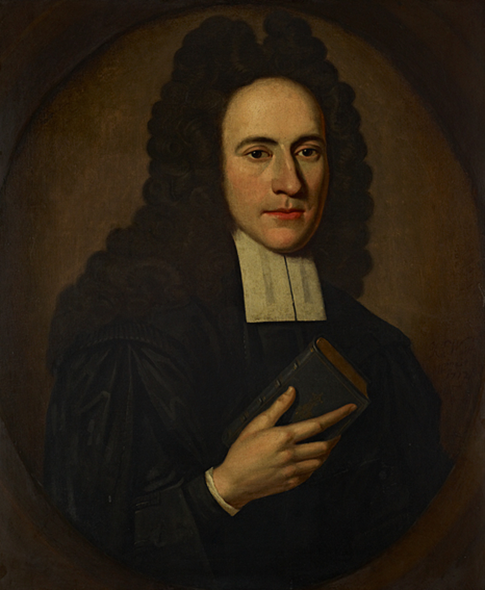 Richard Waitt's painting of Ralph Erskine from the National Galleries Scotland